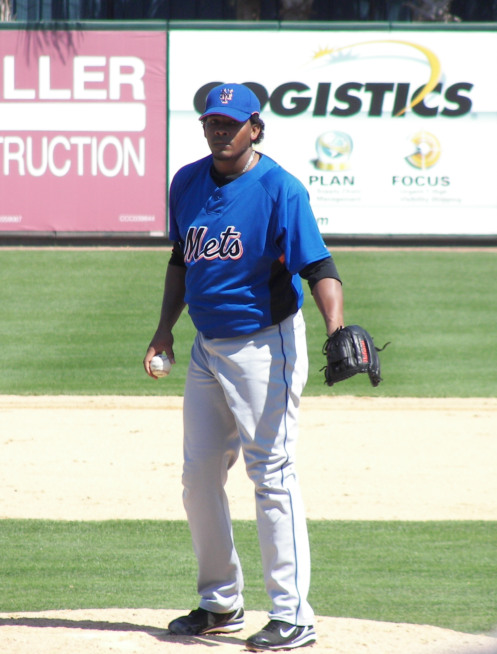 New York Mets relief pitcher Jorge Sosa during a Mets/Detroit Tigers spring training game at Joker Marchant Stadium in Lakeland, Florida.